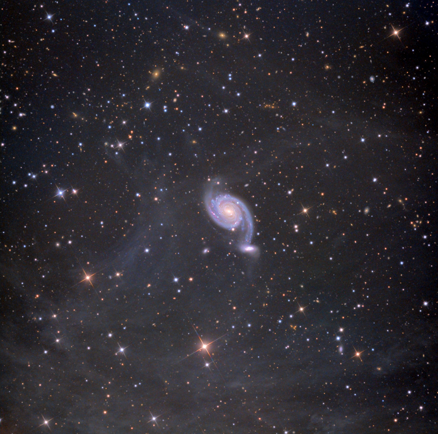 Deep exposures of Galaxies using the 0.8m Schulman Telescope at the Mount Lemmon SkyCenter Credit Line & Copyright Adam Block/Mount Lemmon SkyCenter/University of Arizona